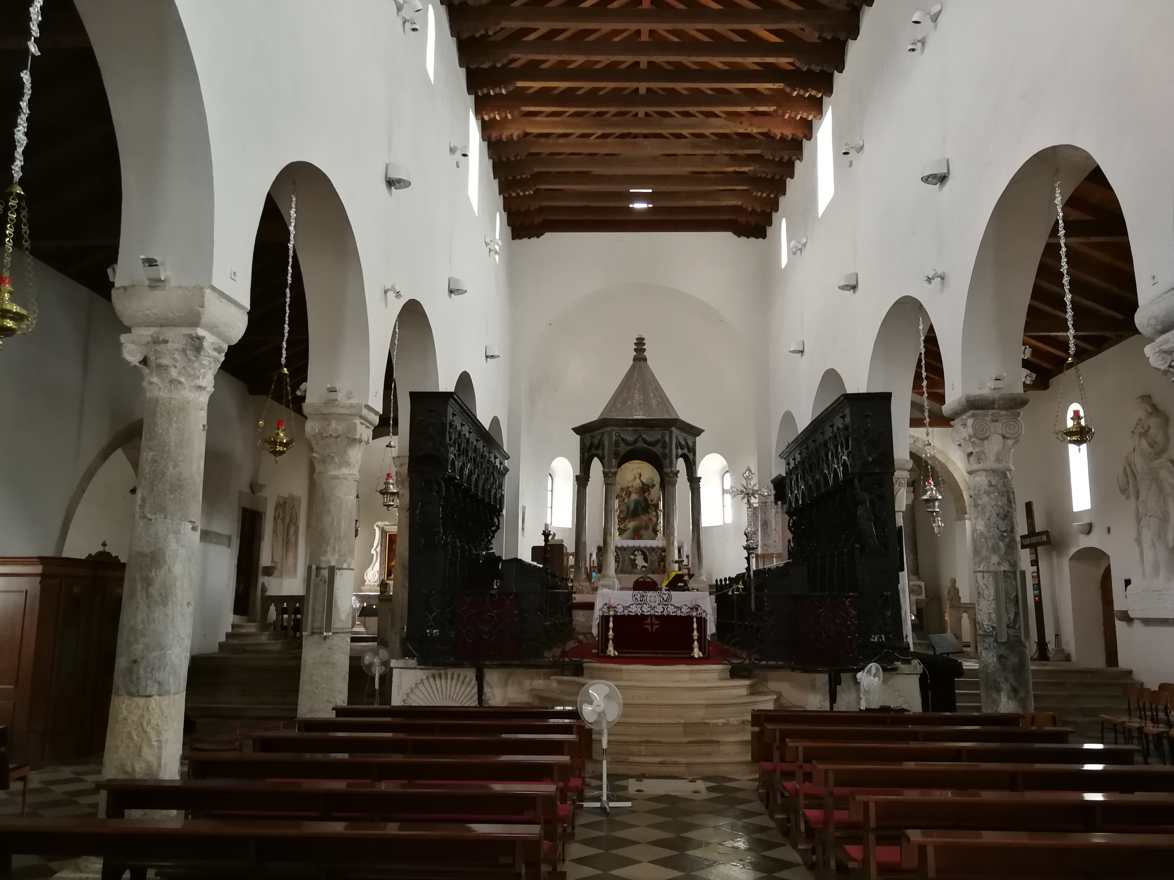 Interior view of the Cathedral of the Assumption of the Blessed Virgin Mary (Rab)